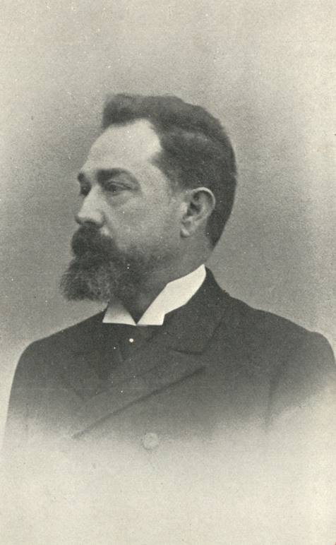 Photograph of Portuguese Republican politician José Cupertino Ribeiro, included in the Album Republicano, published in 1908.